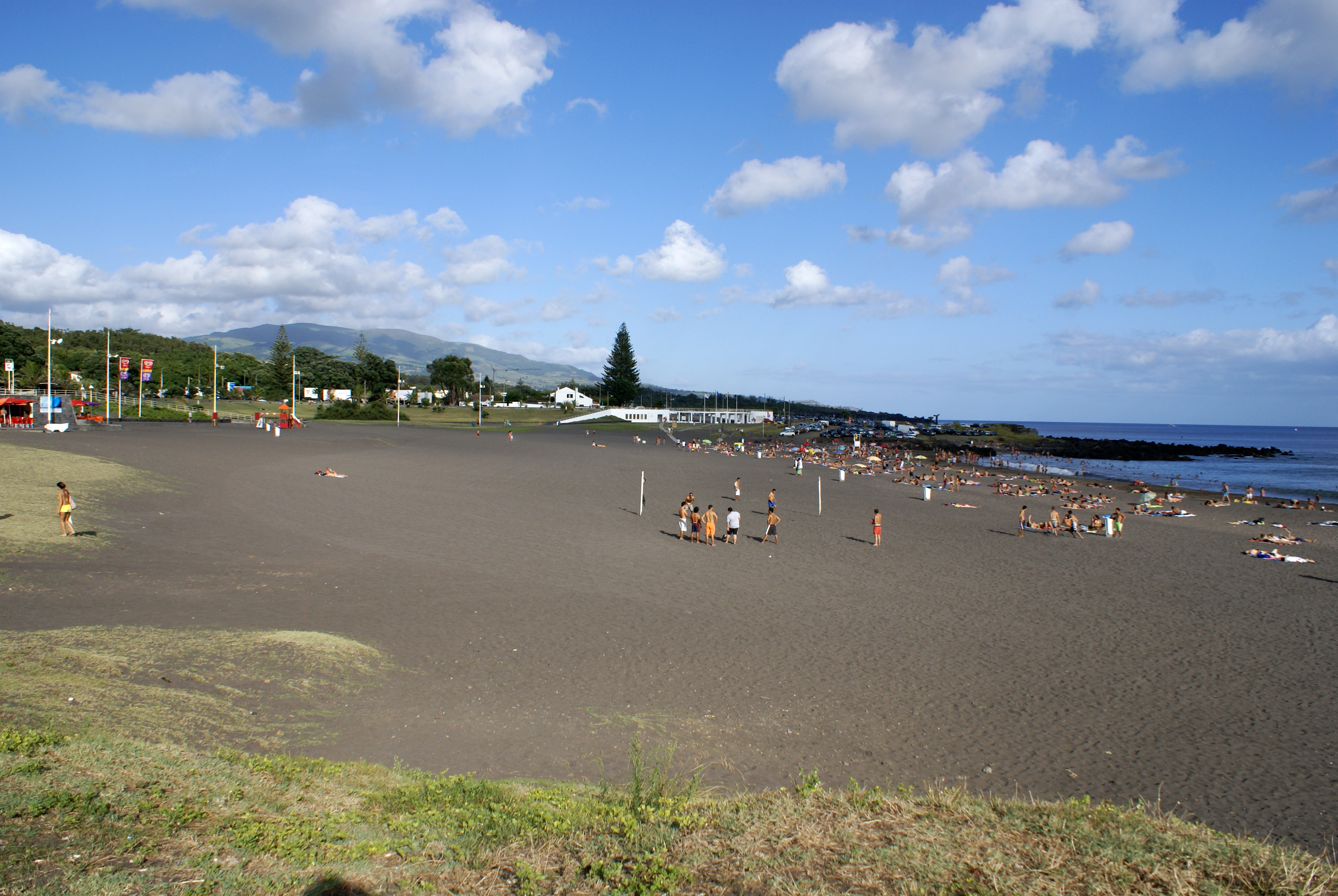 The Praia das Milícias, in Rosto do Cão, civil parish of São Roque, municipality of Ponta Delgada (Azores), Portugal